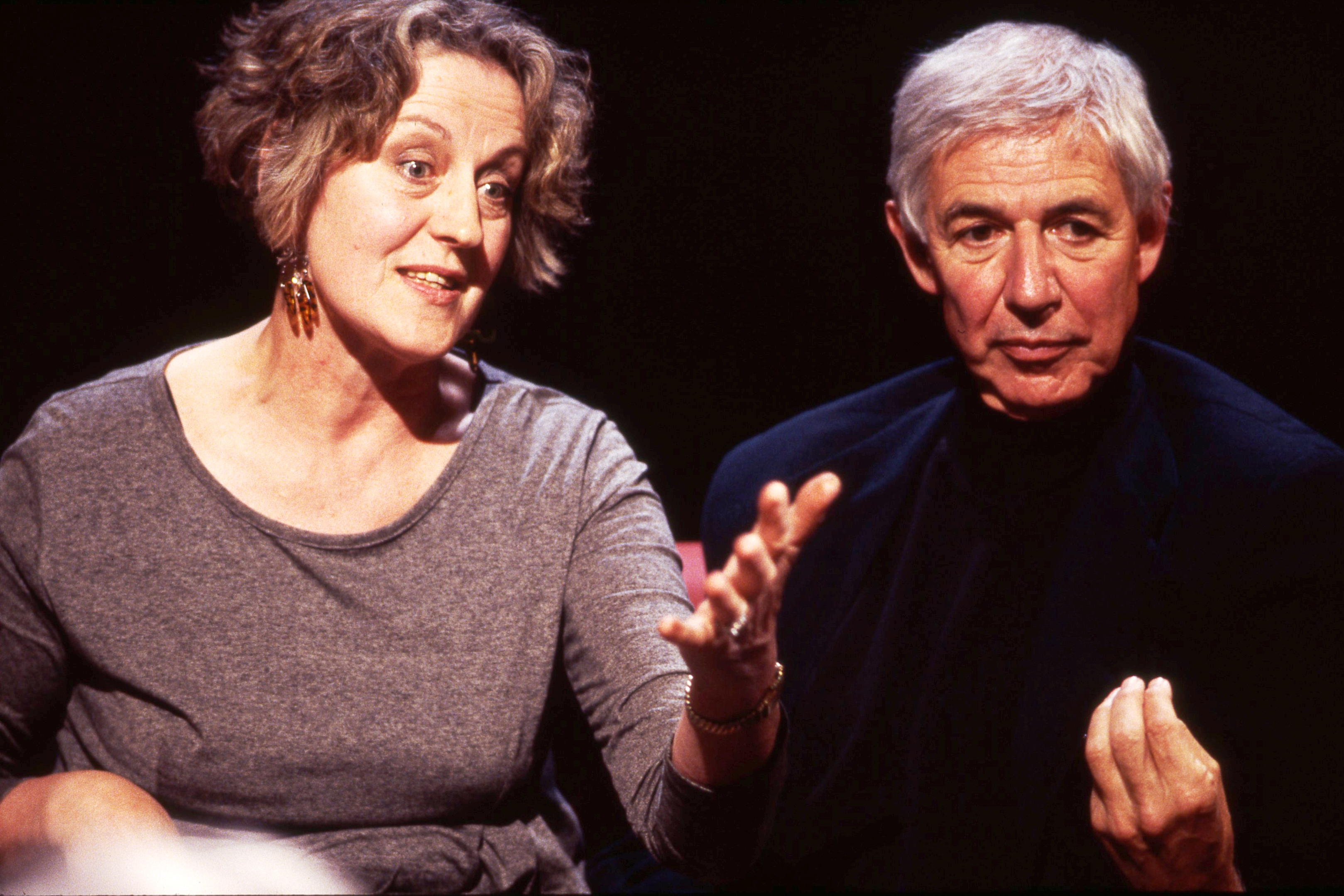 Germaine Greer and Lewis Wolpert appearing on After Dark on 30 May 1994